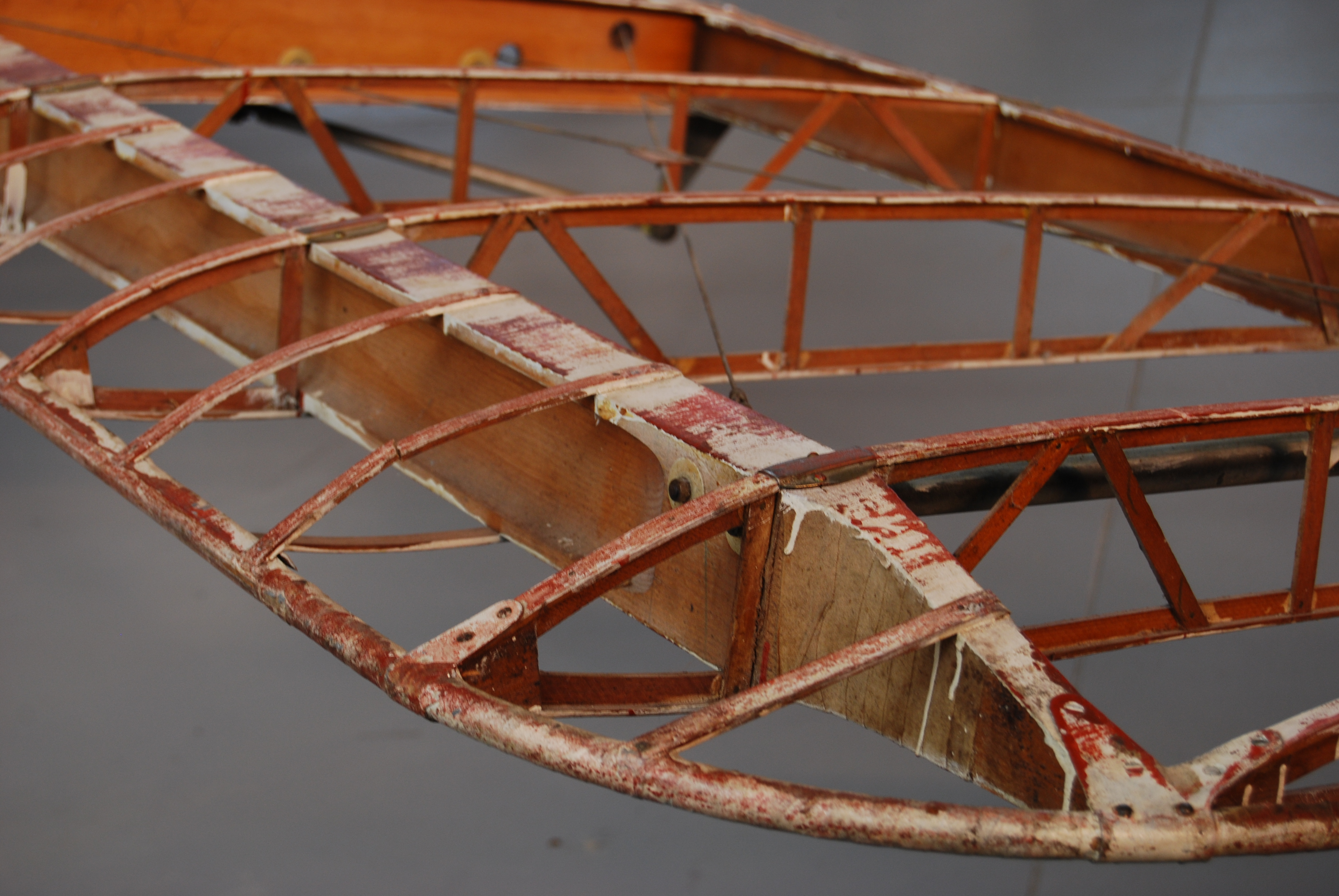 Wing Structure with the skin removed of a DH 60G Gipsy Moth.